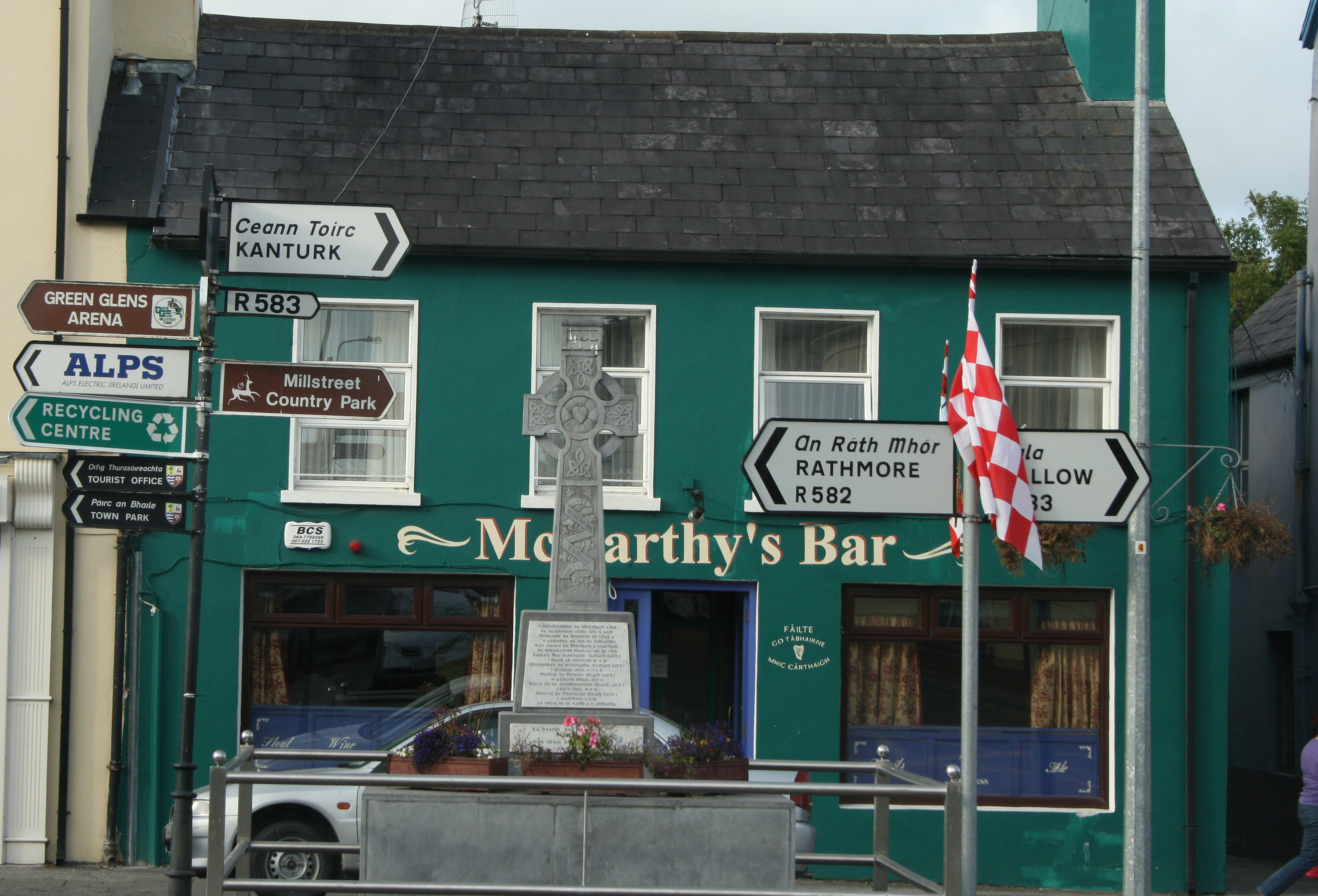 McCarthy's Bar, near to Millstreet, Inchileigh Bridge, Dromascoolane Bridge and Finnow Bridge, Cork, Ireland. Millstreet, County Cork